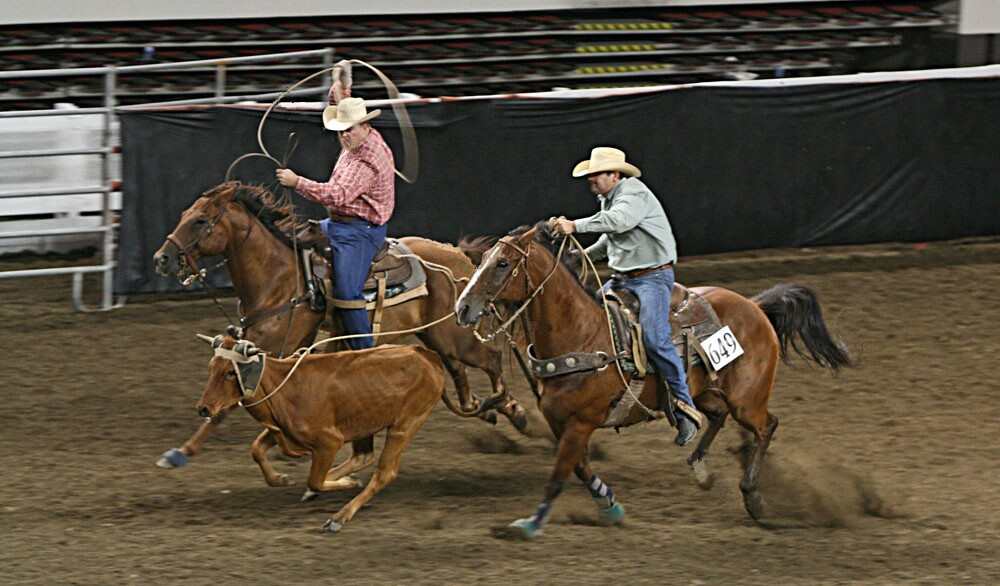 Photo By Heather Abounader